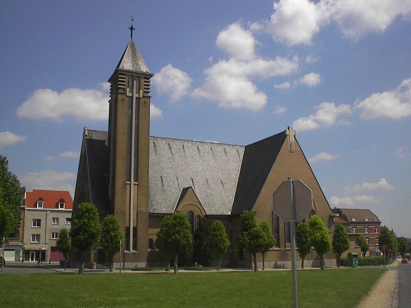 Church of St Joseph